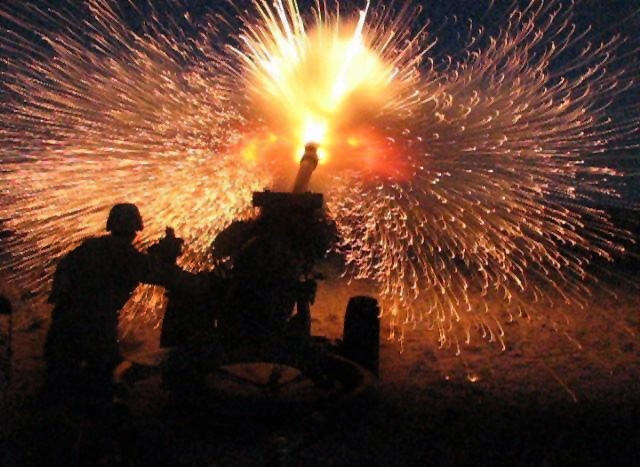 Field artillerymen of Battery A, 2-218th Field Artillery, 41st Infantry Brigade Combat Team, Oregon Army National Guard, fire a 105mm shell from a howitzer at Yakima Training Grounds, Wash., during the unit's annual training.